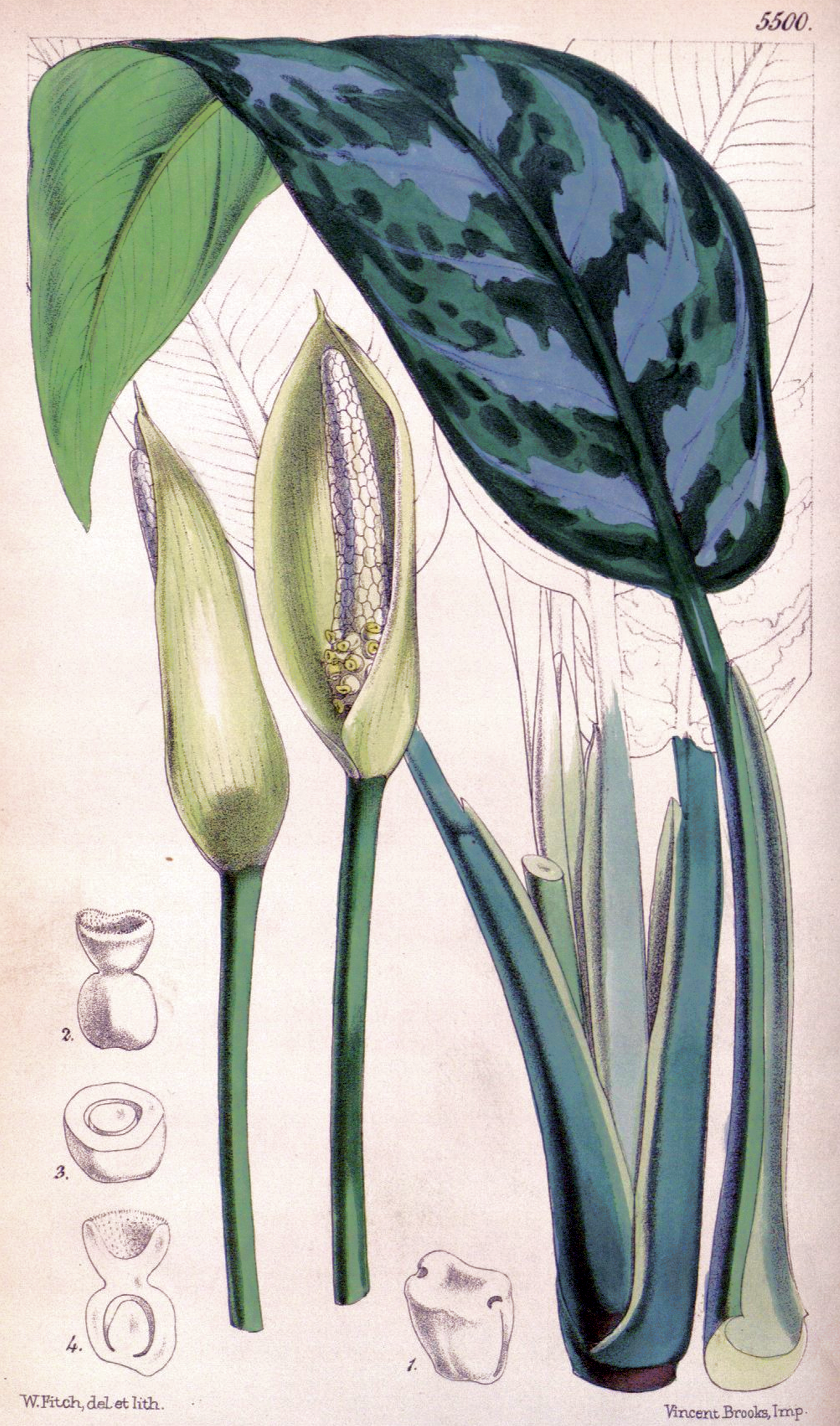 Aglaonema commutatum var. maculatum from Curtis's botanical magazine (Tab. 5500)